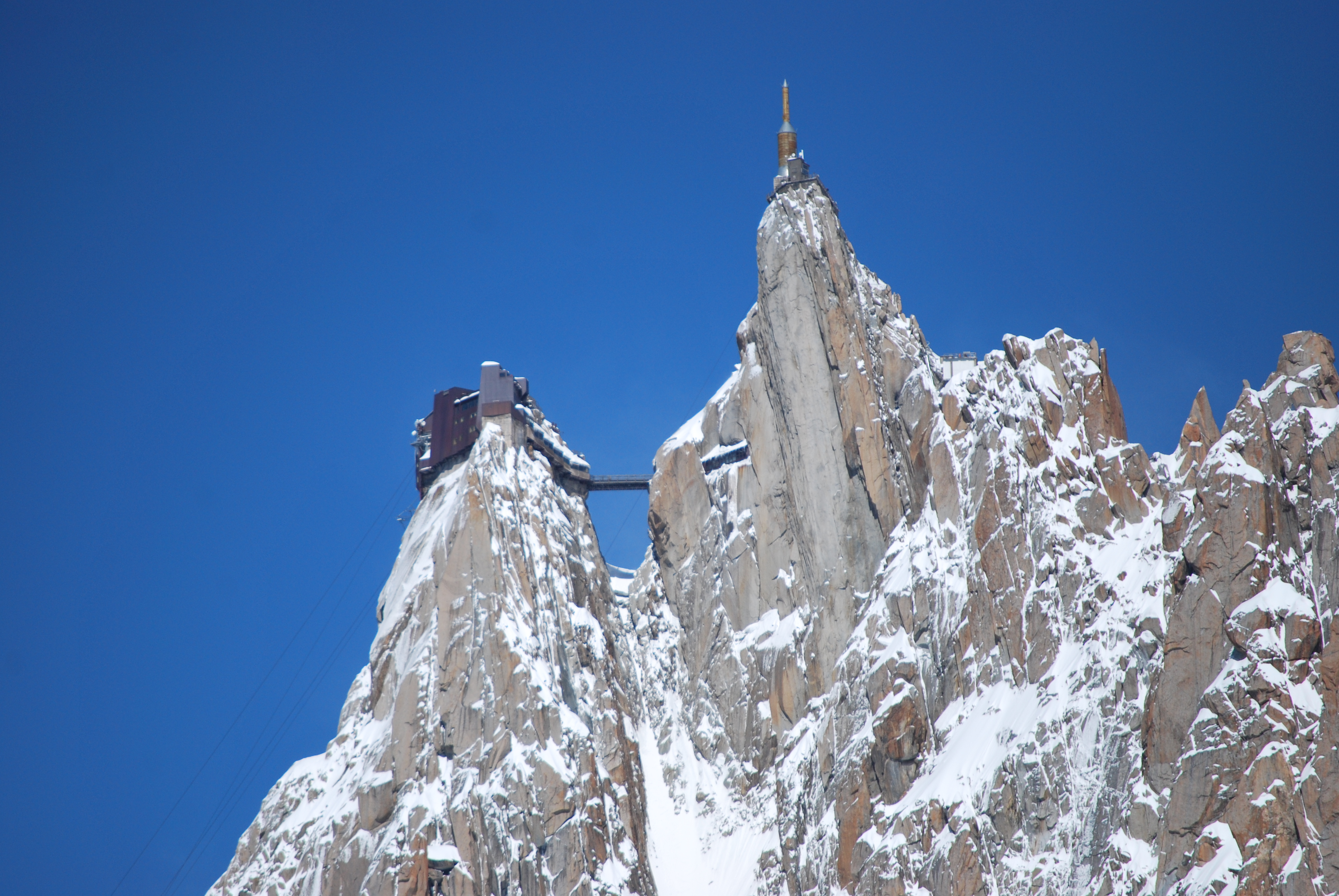 Aiguille du Midi seen from Refuge des Grands Mulets